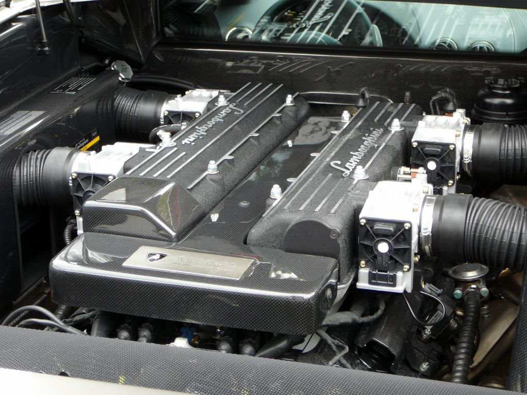 Lamborghini V12 engine in Lamborghini Murciélago